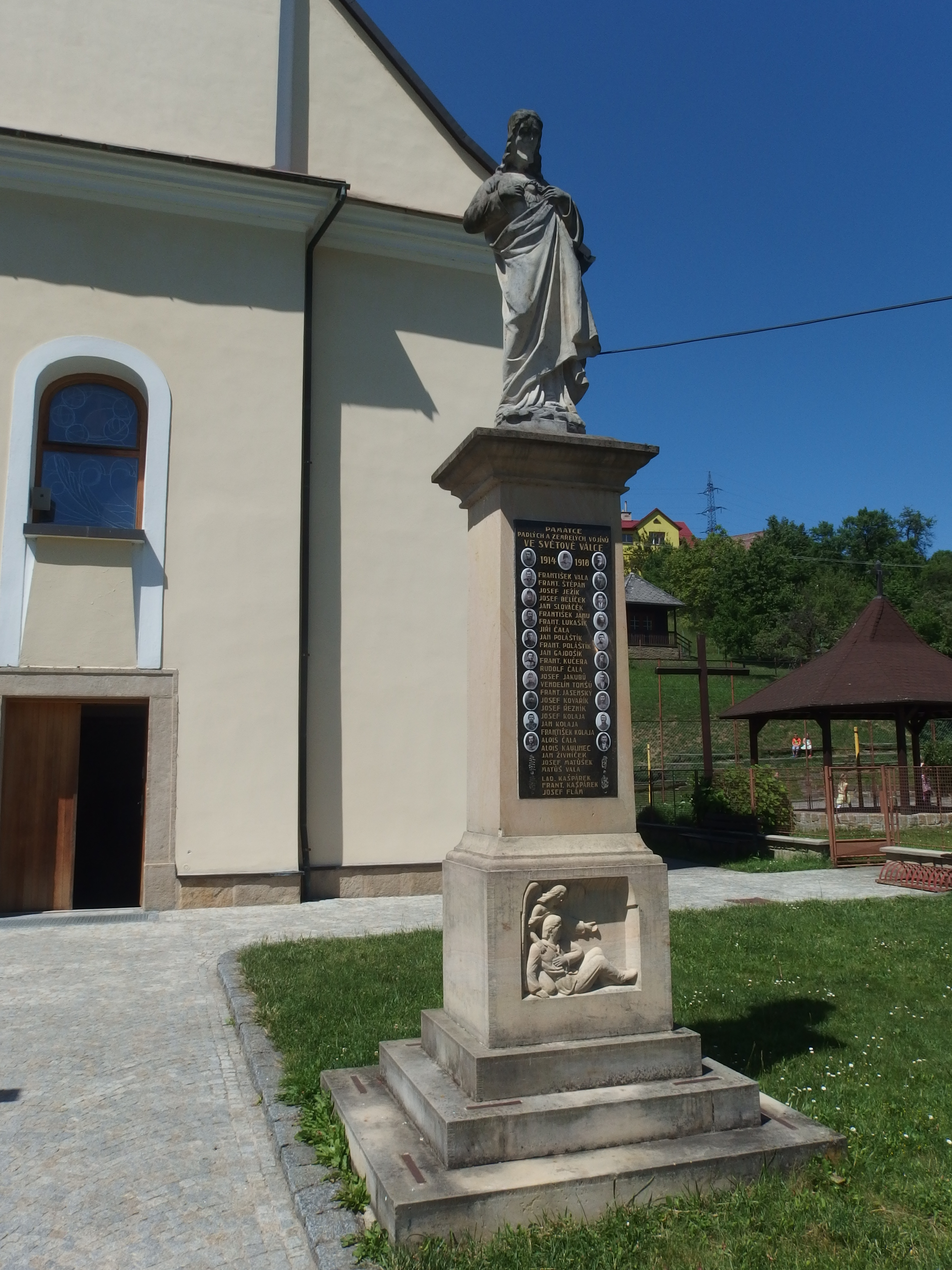 Všemina, Zlín District, Czech Republic.